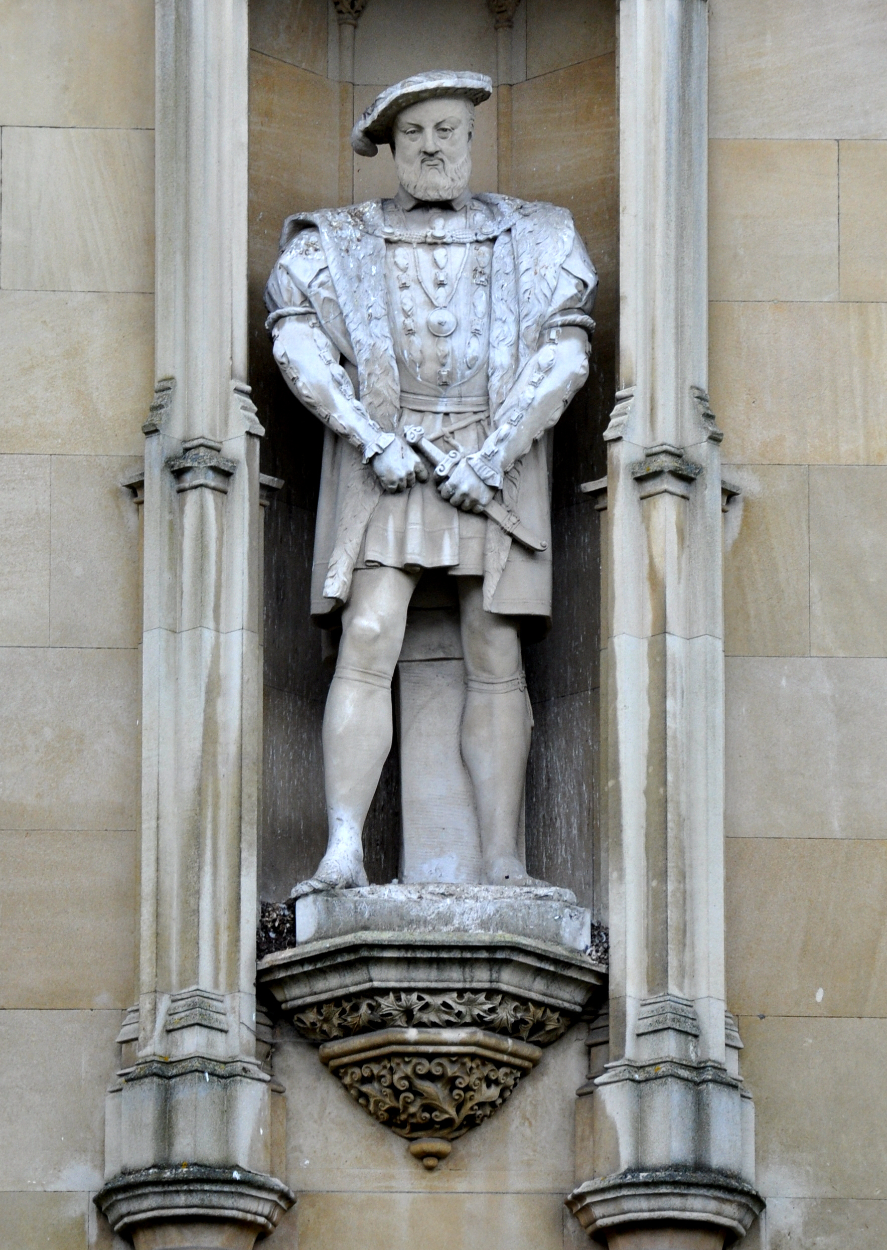 Cambridge (England), King's College, statue of Henry VIII